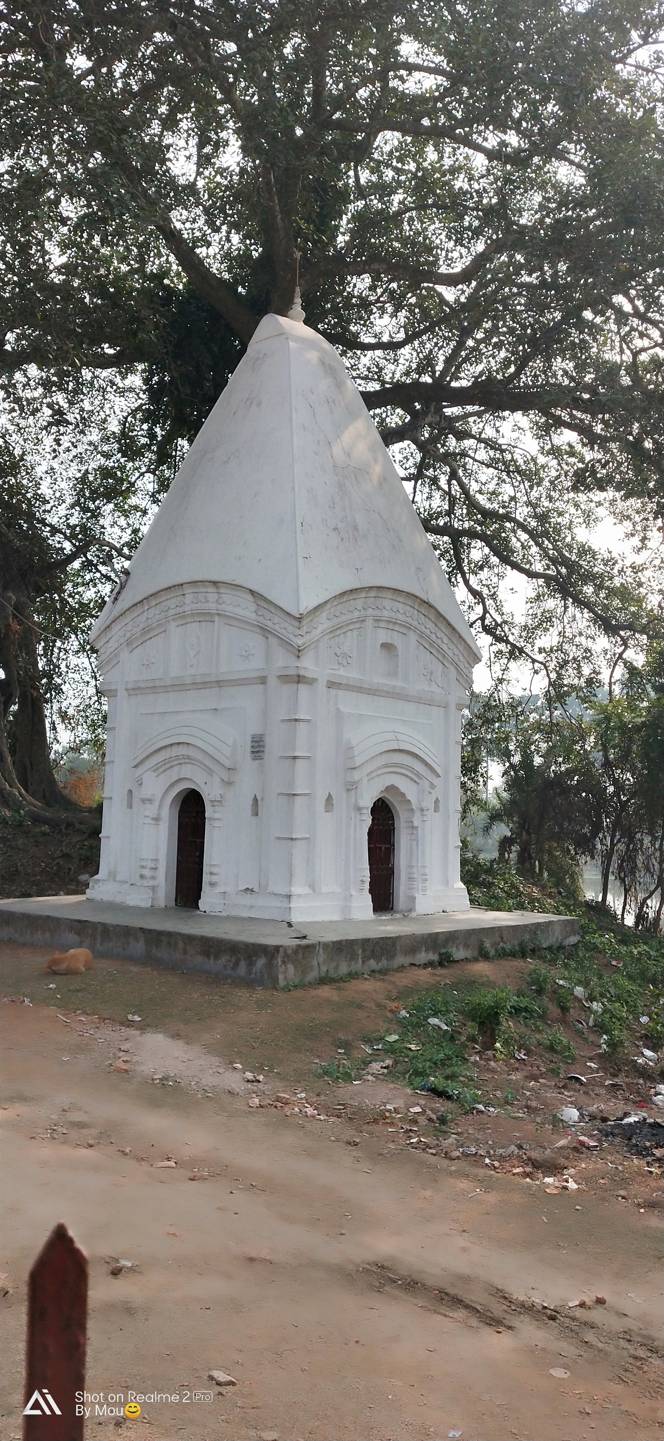 Temple of Bhairva